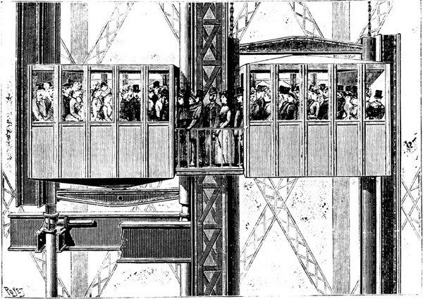 Contemporary illustration of the third level lifts in the Eiffel Tower